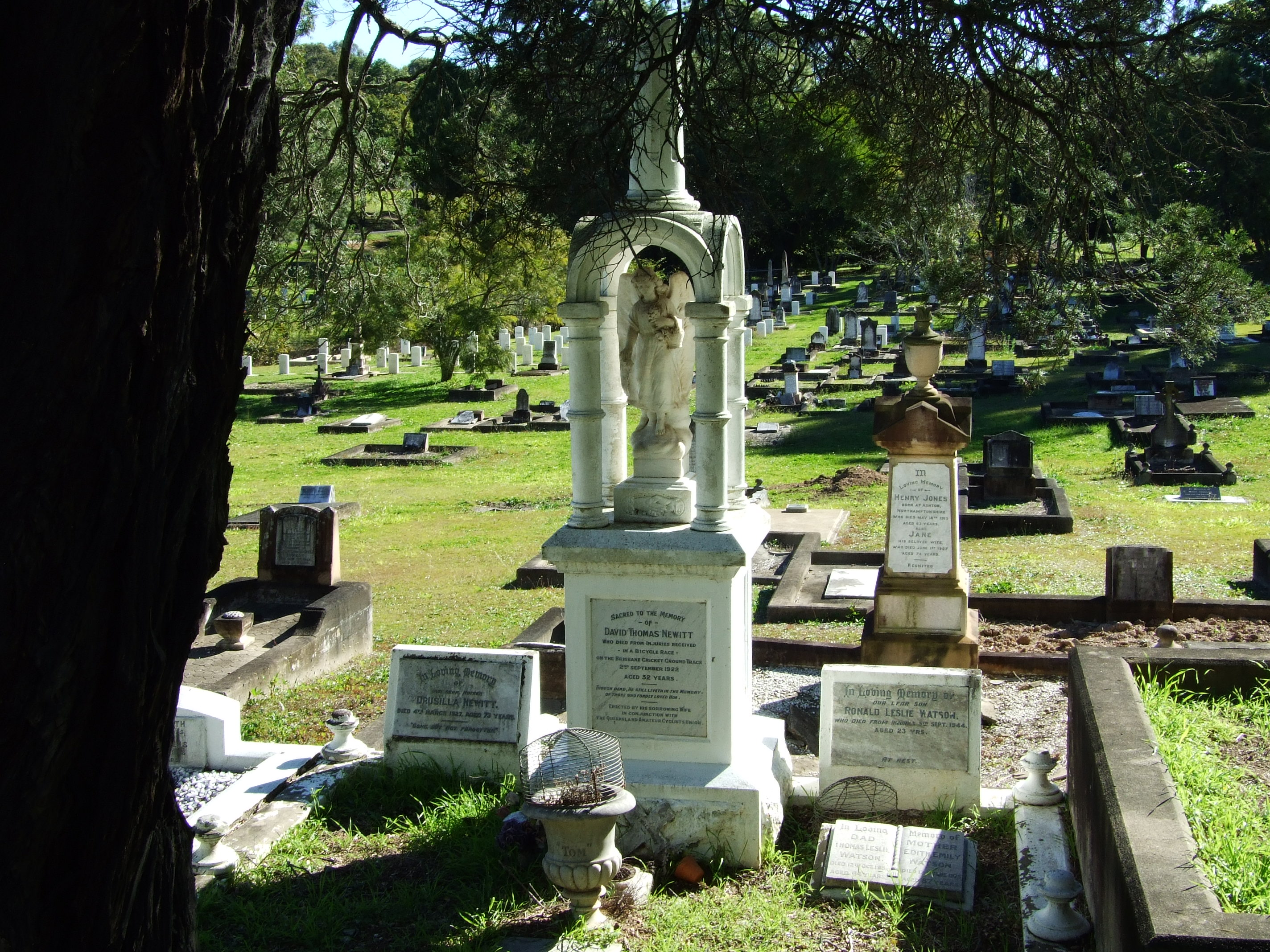 Grave of David Newitt, who died in a cycling race at The Gabba in 1922.